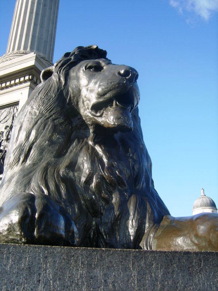 One of four Lions around the base of Nelson's Column